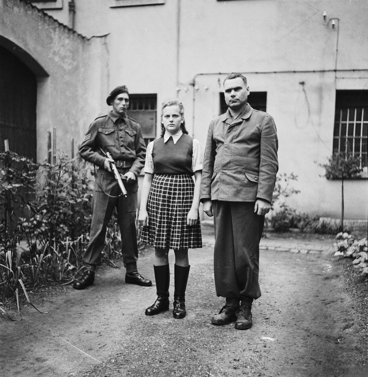 The Liberation of Bergen-belsen Concentration Camp 1945- Portraits of Belsen Guards at Celle Awaiting Trial, August 1945 Irma Grese standing in the courtyard of the Prisoner of War cage at Celle with Josef Kramer. Both were convicted of war crimes and sentenced to death.